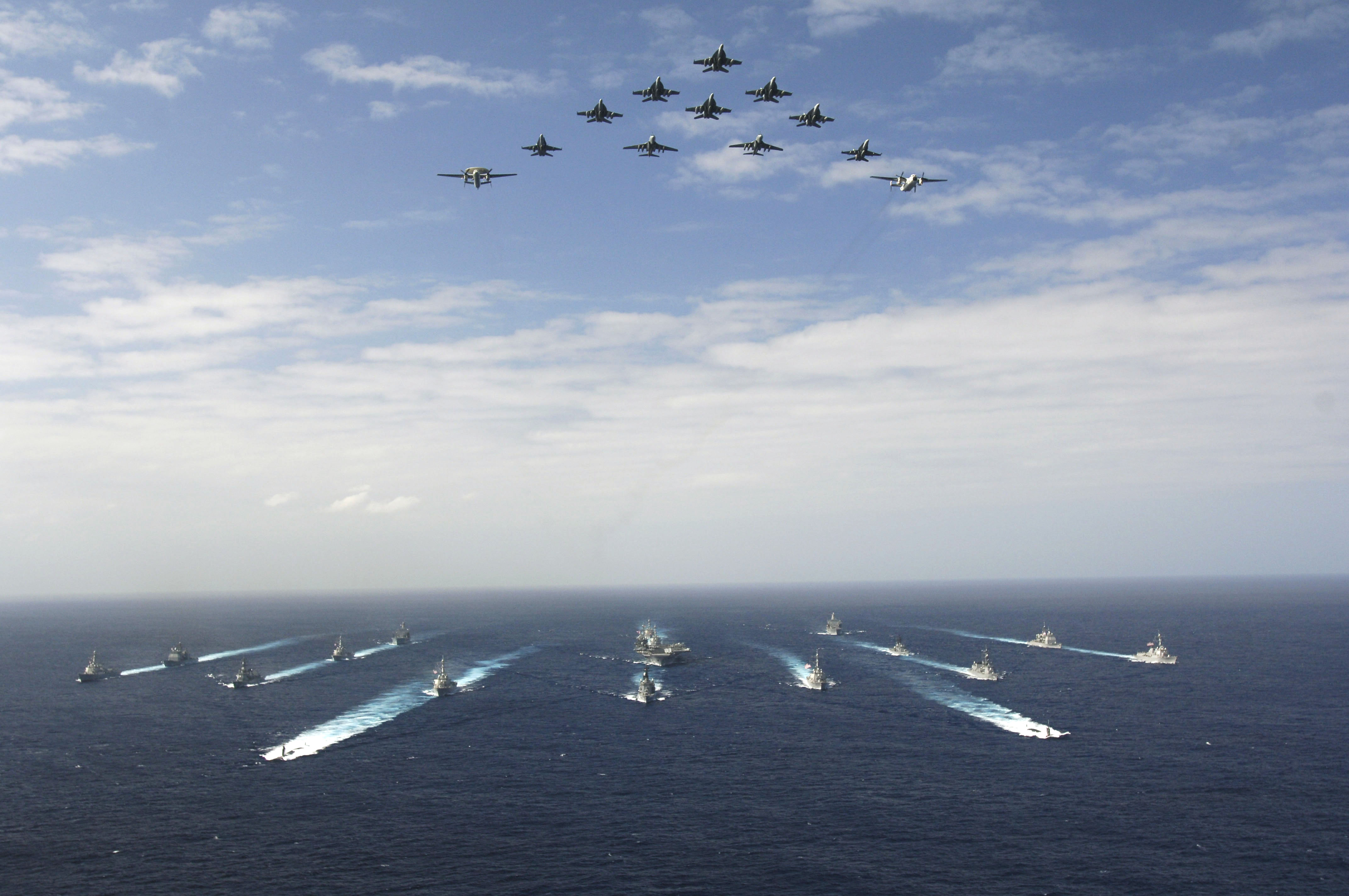 Pacific Ocean (Nov. 14, 2006) - Aircraft assigned to Carrier Air Wing Five (CVW-5) fly over a group of 18 U.S. and Japanese Maritime Self-Defense Force ships, at the conclusion the two nations' exercise ANNUALEX. The exercise is designed to improve both forces' capabilities in the defense of Japan. Approximately 8,500 U.S. Sailors are taking part aboard 13 ships, submarines and various shore-based aircraft. About 90 JMSDF ships and 130 aircraft are also participating. Ships taking part in the exercise-ending photo shoot were the aircraft carrier USS Kitty Hawk (CV 63), two guided-missile cruisers, two Military Sealift Command oilers, two submarines, seven guided-missile destroyers and four JMSDF destroyers. U.S. Navy photo by Mass Communication Specialist 3rd Class Jarod Hodge (RELEASED)